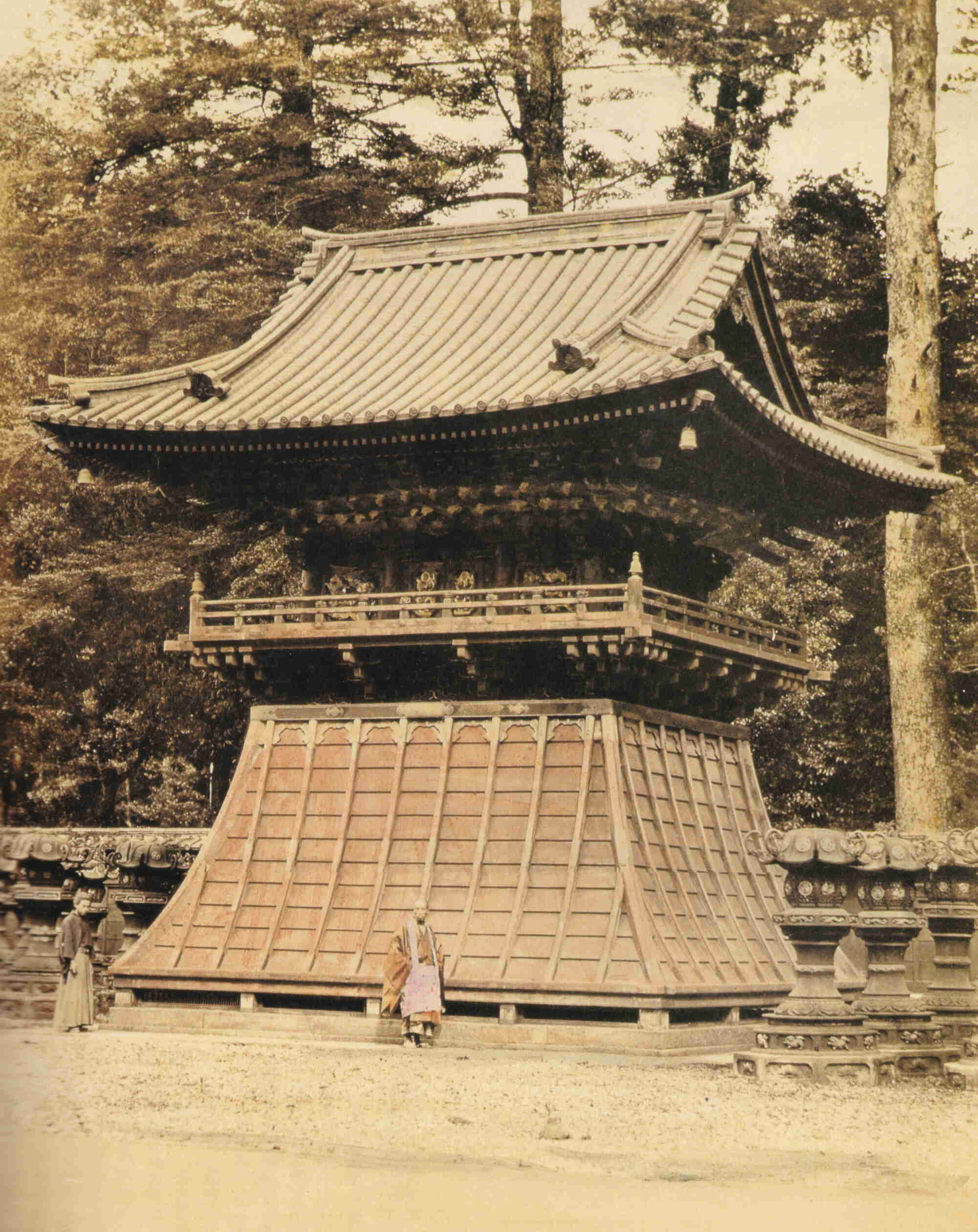 Bell tower of Kaneiji temple Edo before 1868